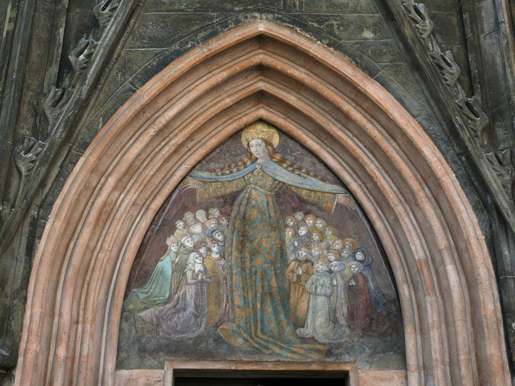 Portal of the Goat Church